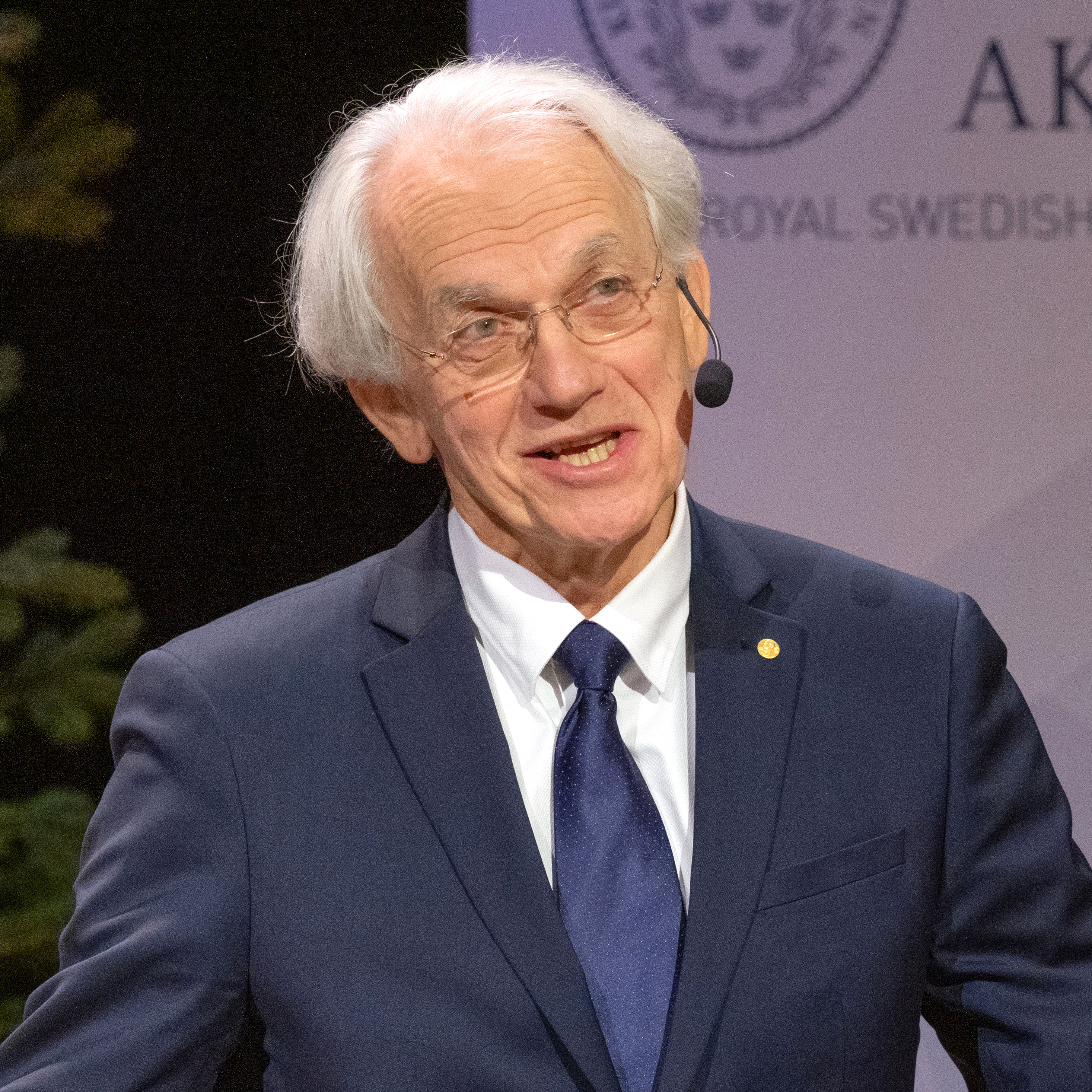 Nobel Laureates in Physics 2018, Stockholm, Sweden, December 2018